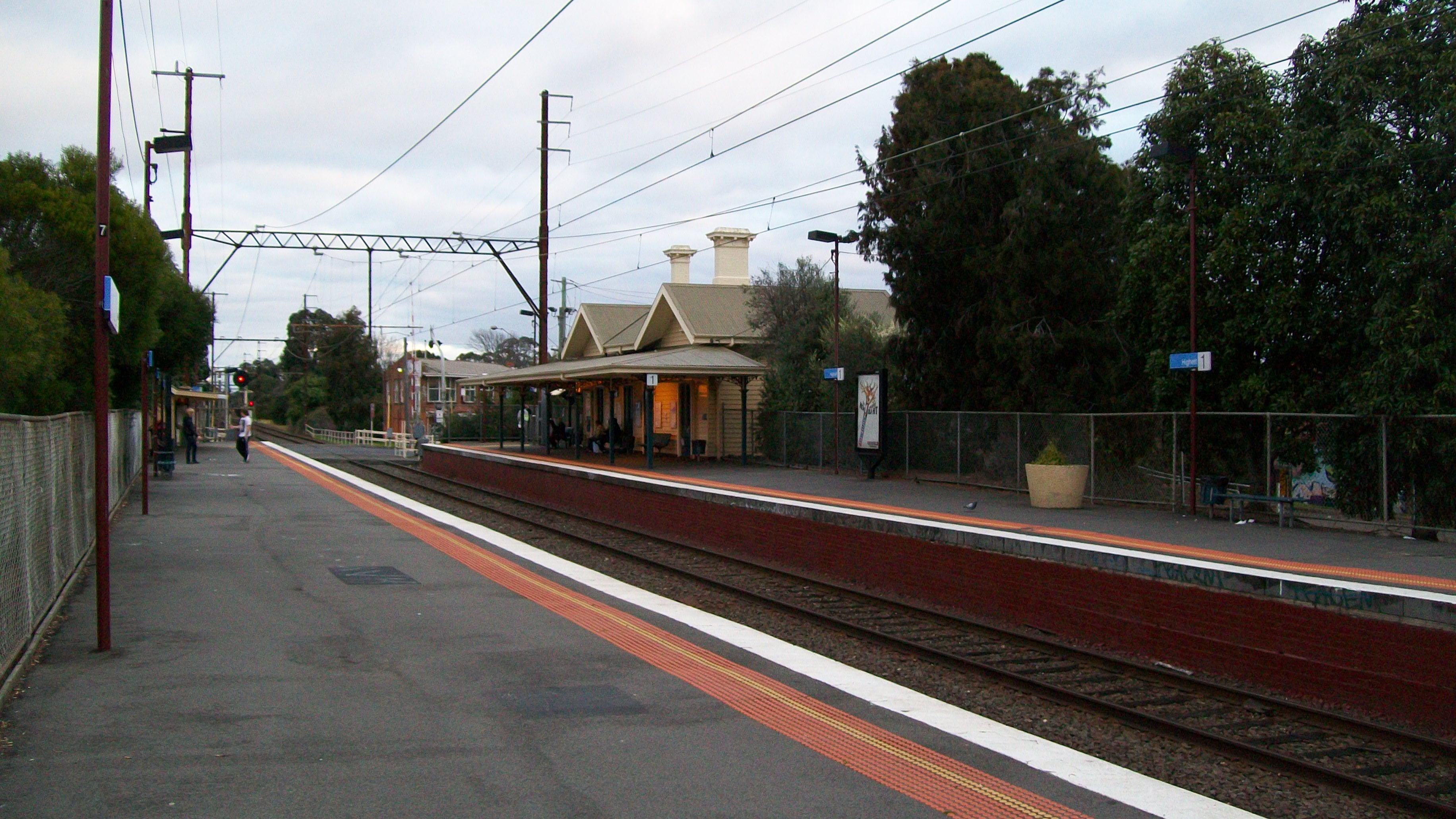 Photo of Highett railway station, Melbourne